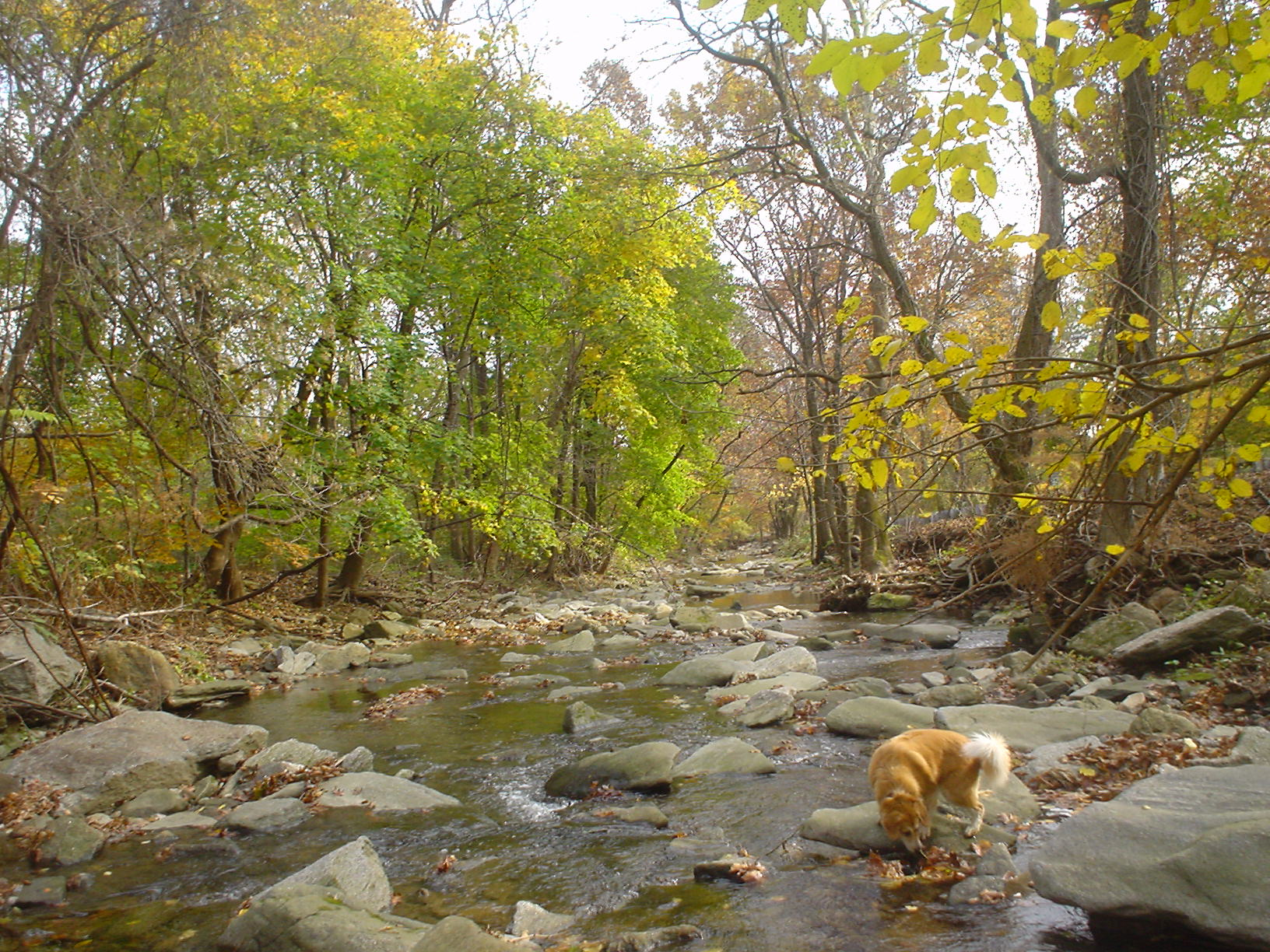 Cobbs Creek across Karakung Rd. from Nitre Hall. I took this photo myself and donate it to the Public Domain.